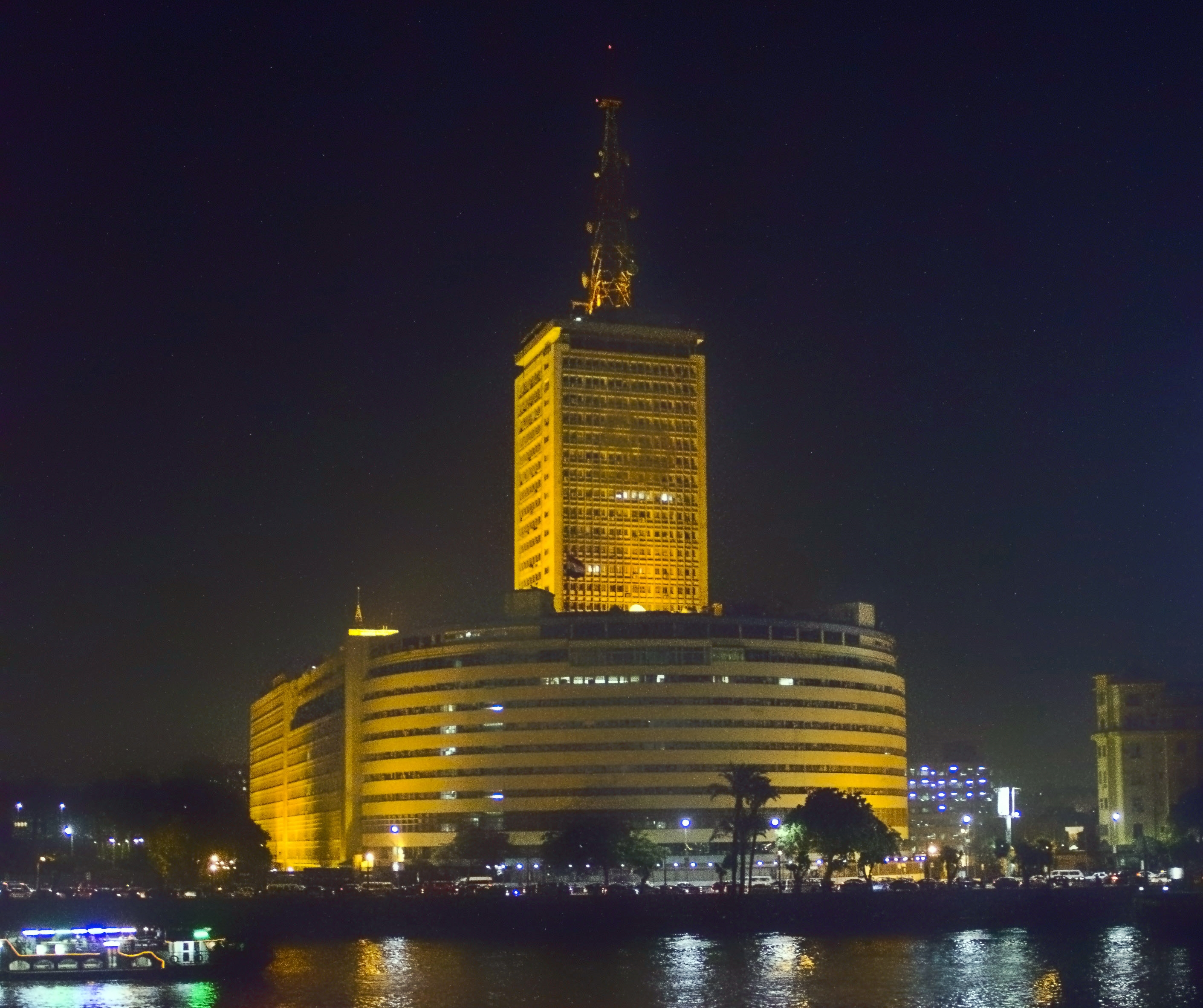 Maspir building in Cairo